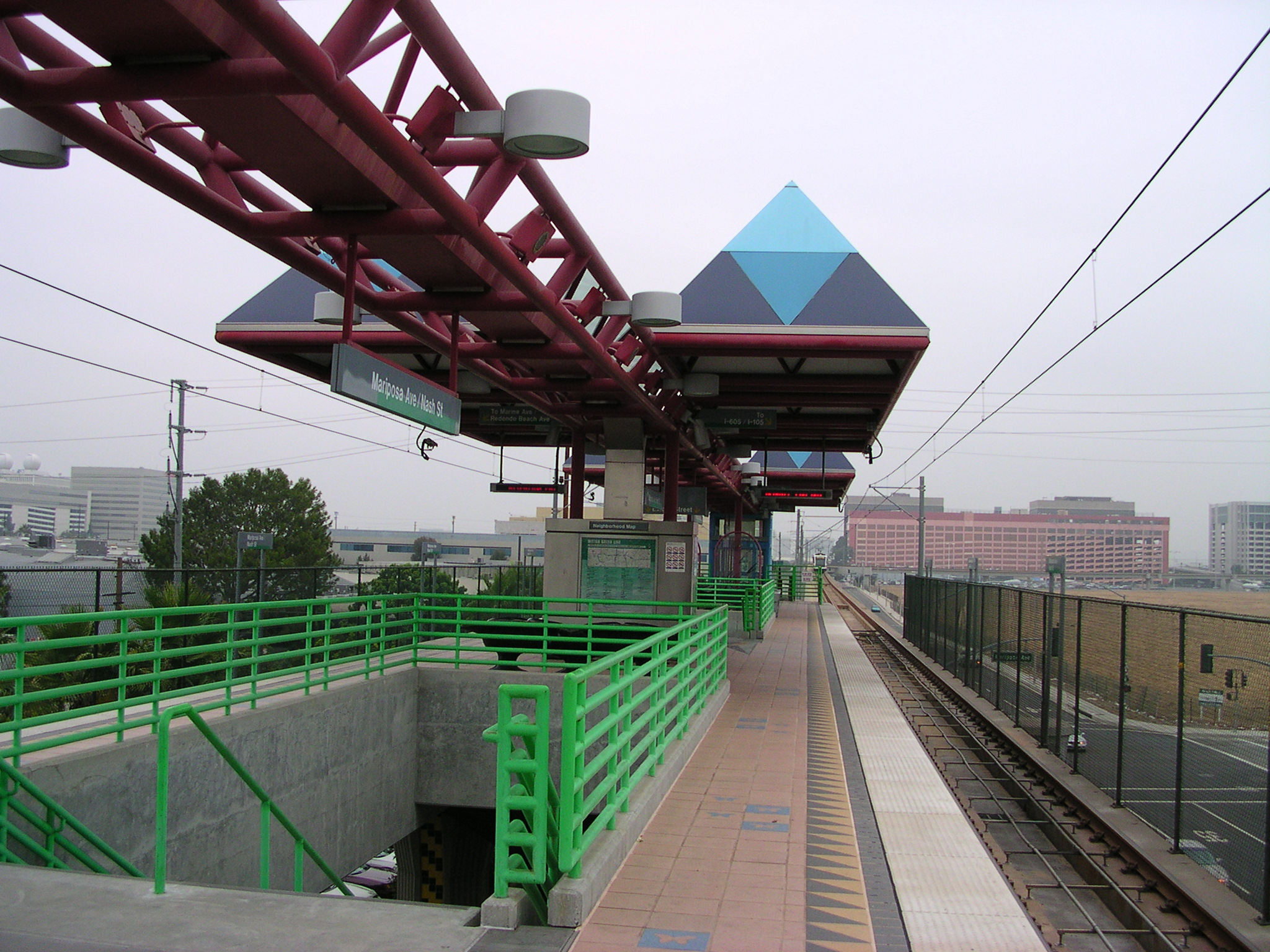 Platform of Mariposa (Los Angeles Metro station) in El Segundo, California